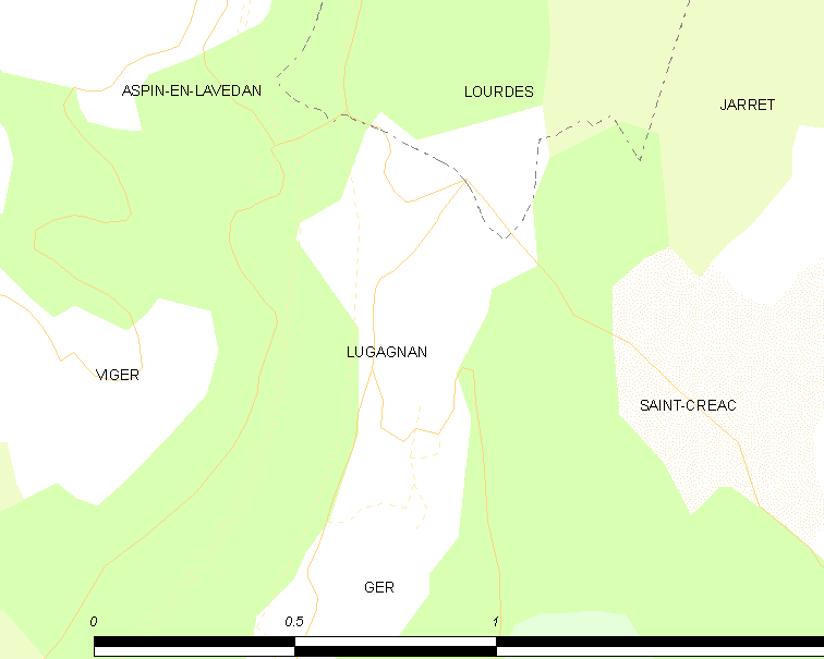 Map of French municipality